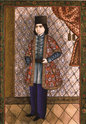 Portrain of young man. Azerbaijanian museum of art.